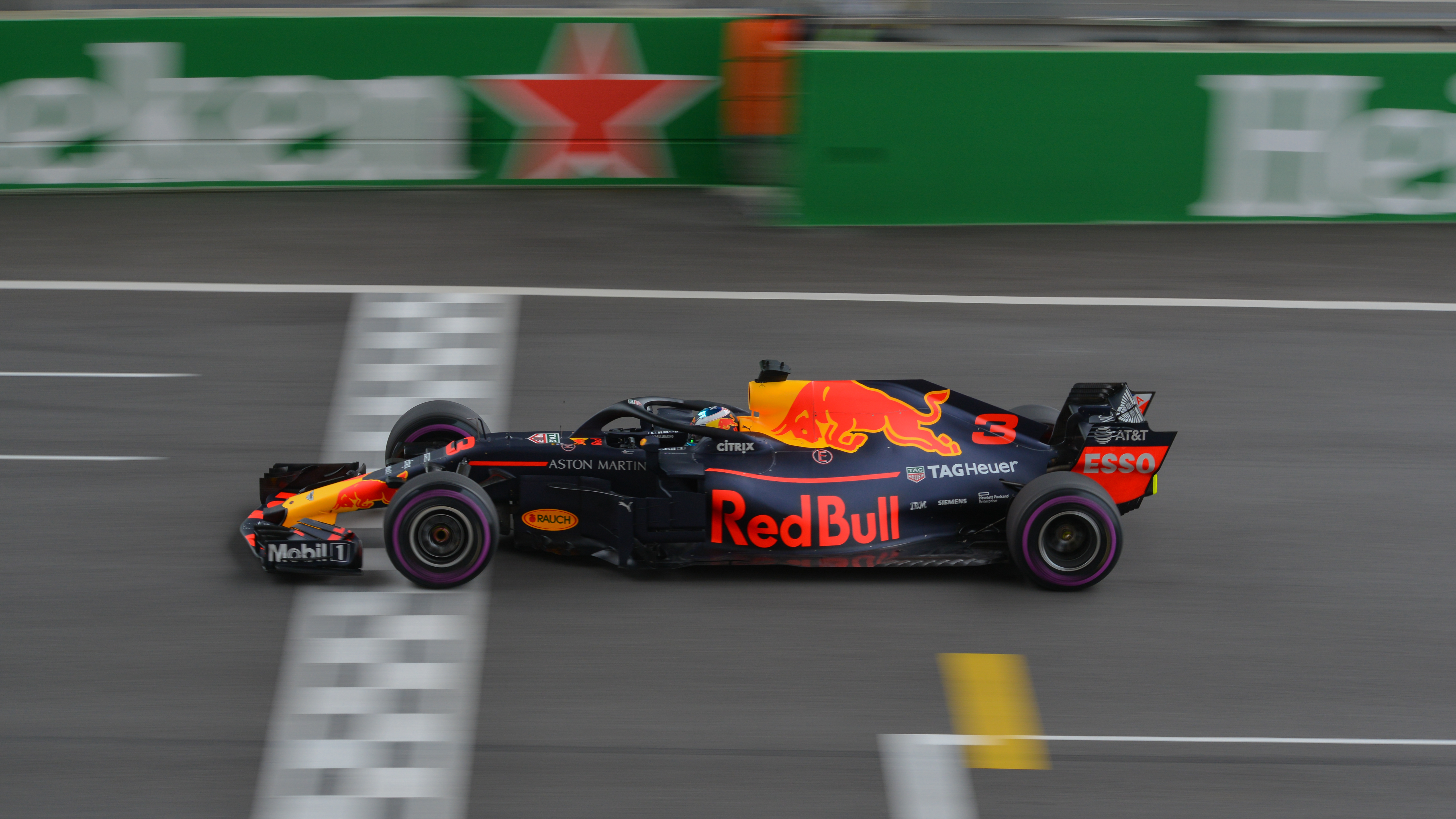 Red Bull Racing TAG Heuer